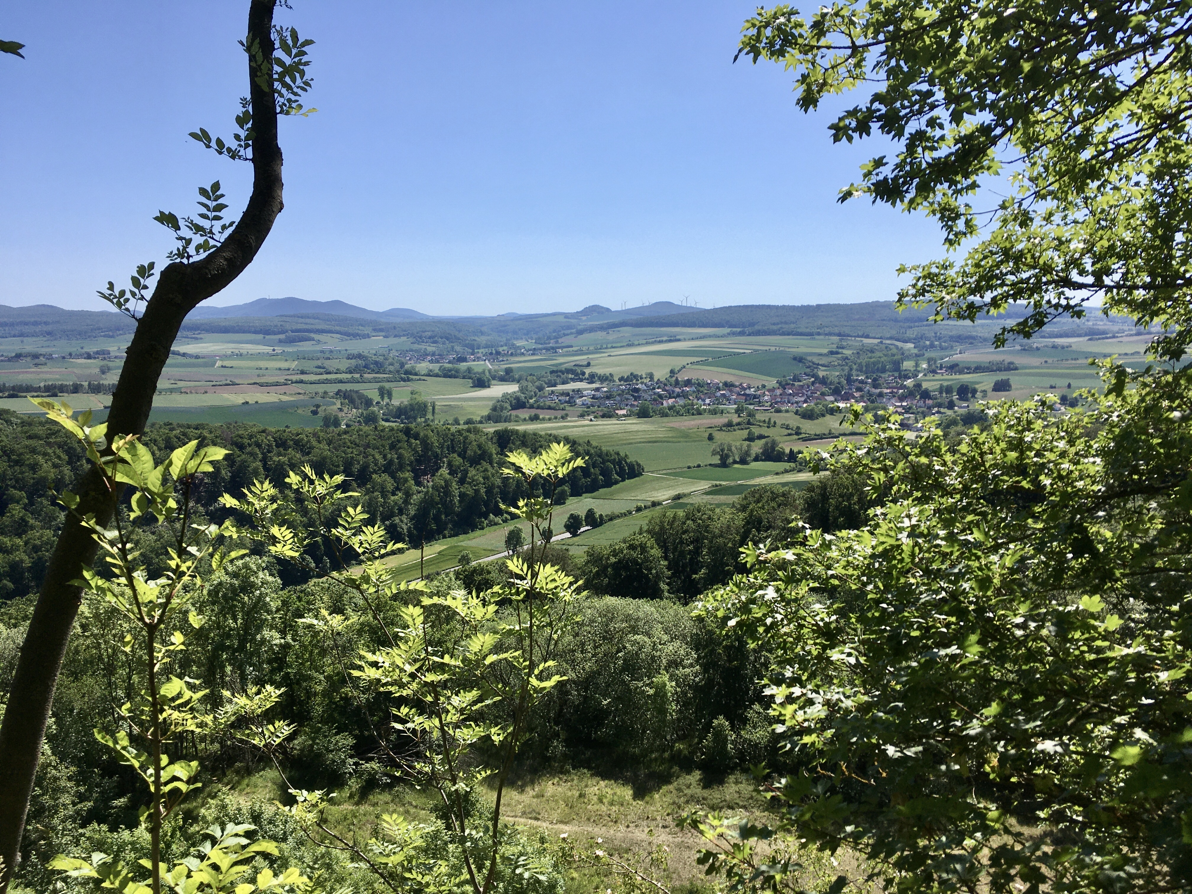 View from Top of Rosenberg close to Niedermeiser (northern Hessia) in southwest direction across Niedermeiser